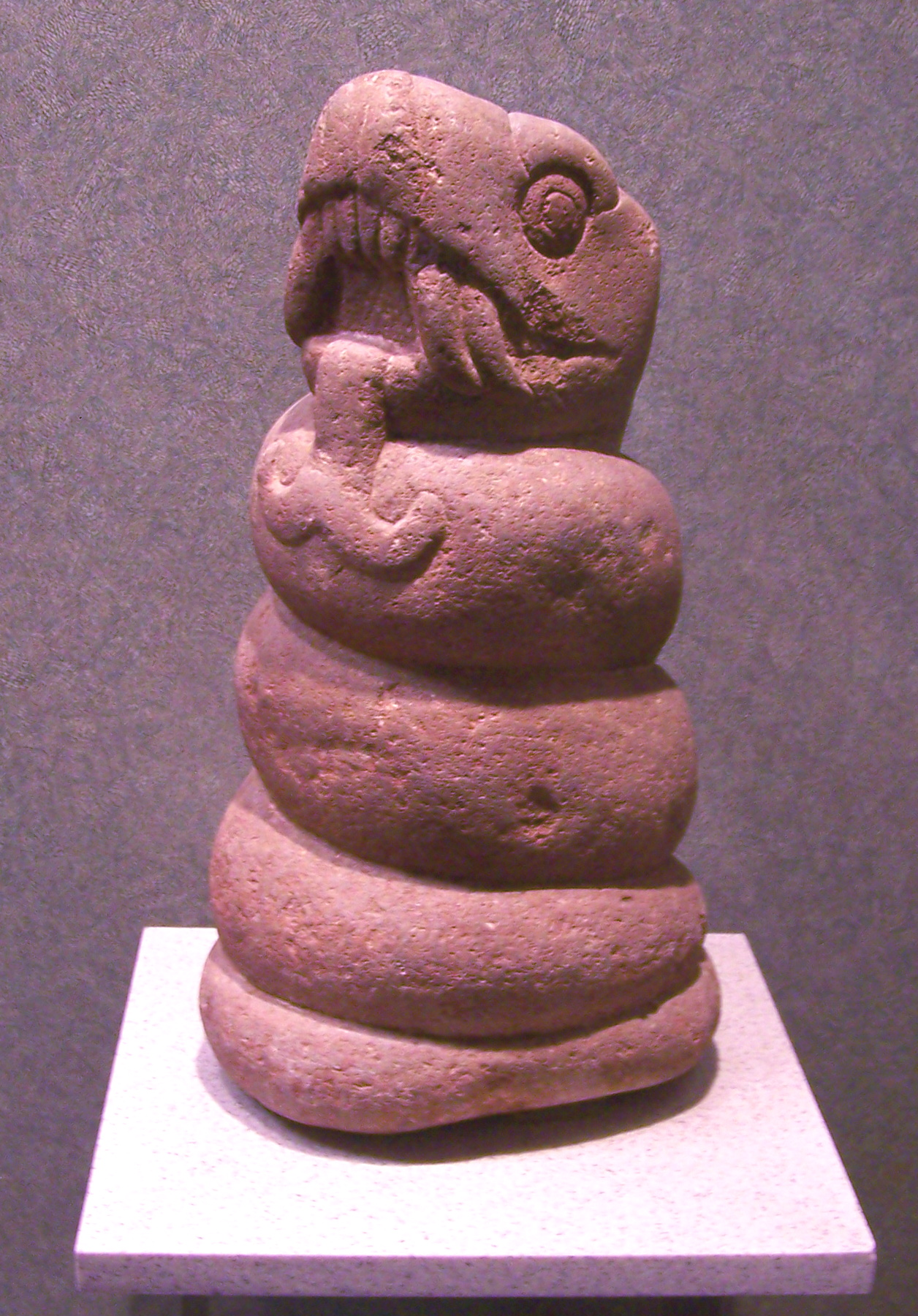 A greenstone serpent from the pre-Hispanic city of Texcoco. On display at the National Museum of Anthropology, Mexico City